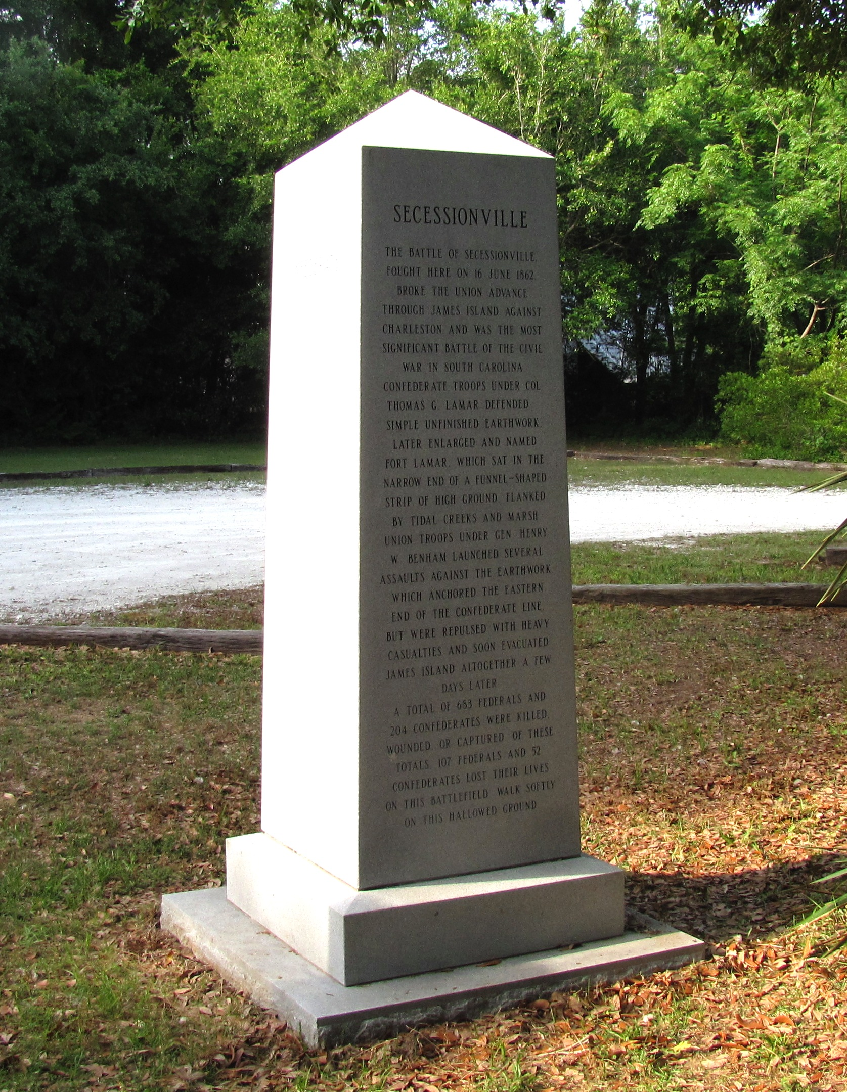 Obelisk at the Fort Lamar site in Charleston County, South Carolina, USA, recalling the 1862 Battle of Secessionville.